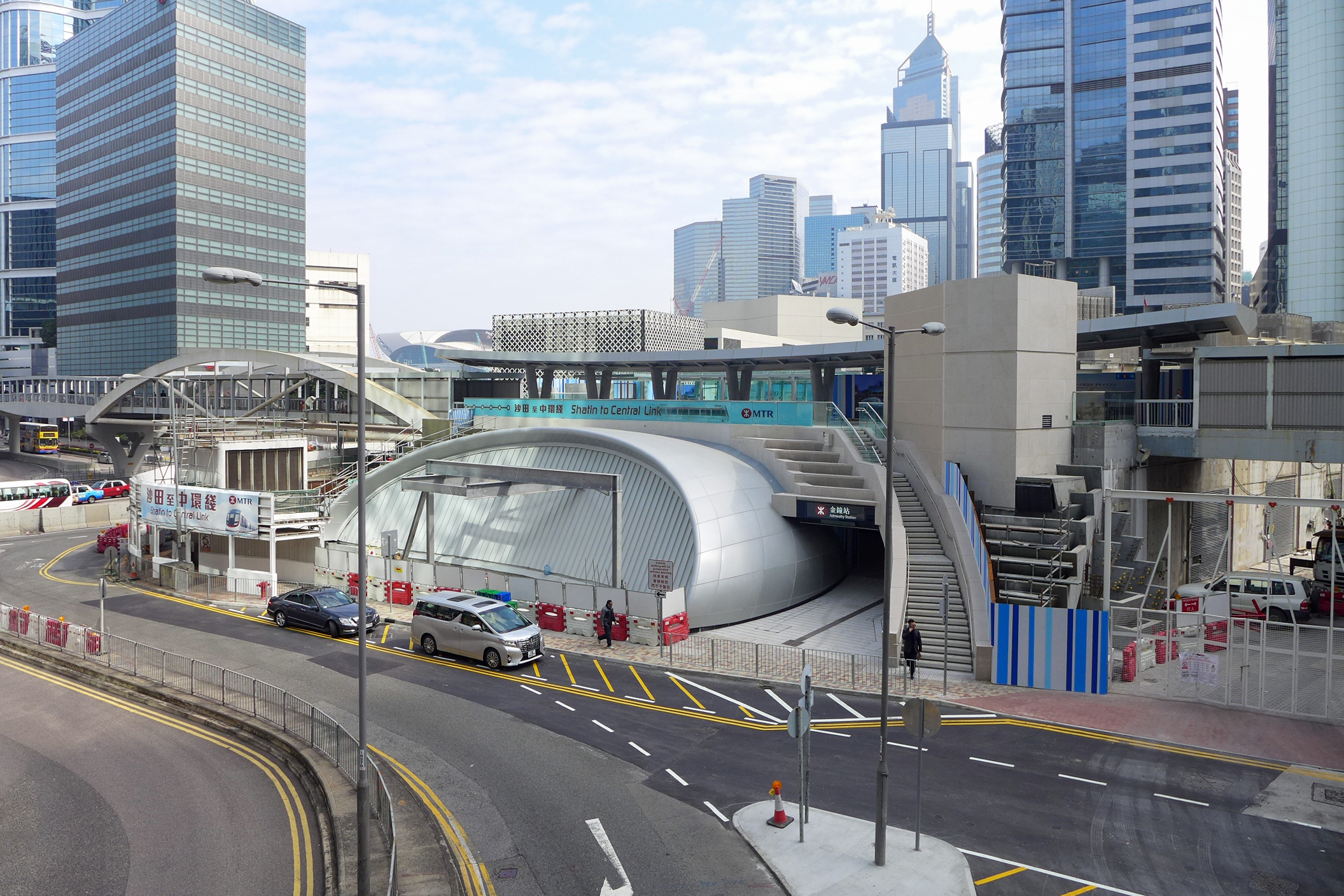 Admiralty Station Outside view